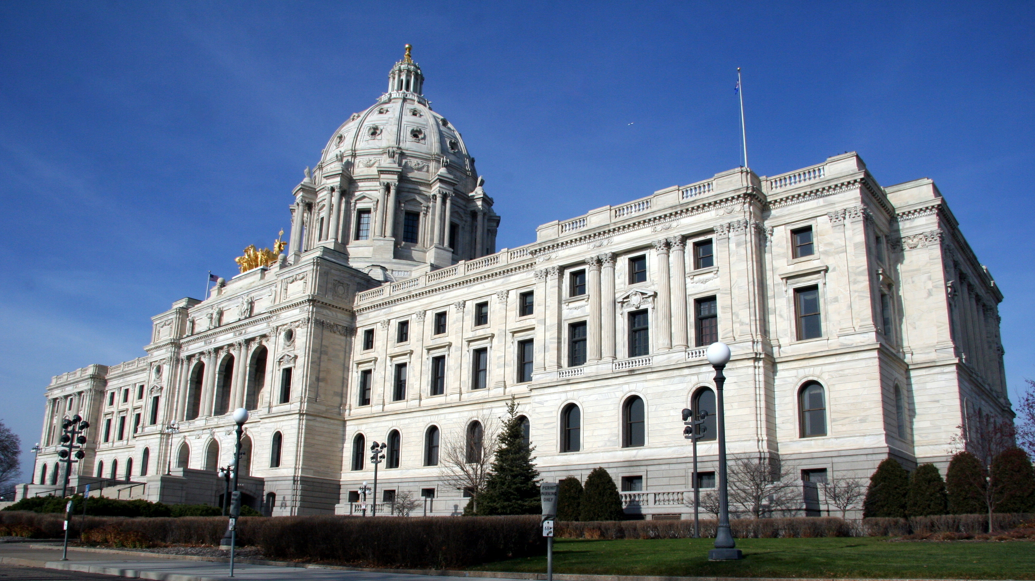 The Minnesota State Capitol at midday, seen from Aurora Avenue in Saint Paul, Minnesota.